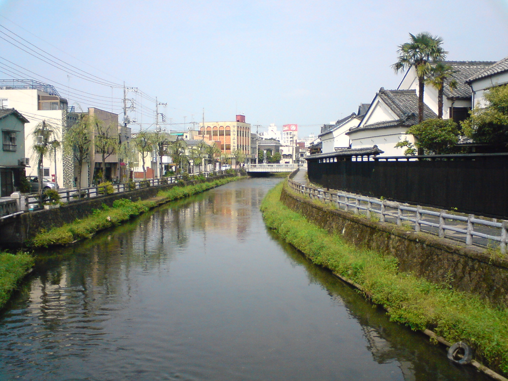 Uzumagawa River